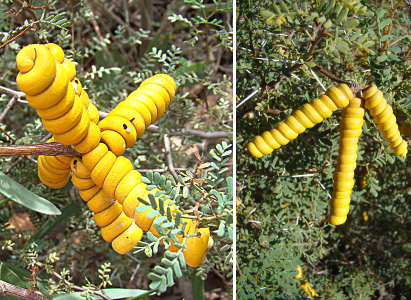 The colorful pods of the Argentine Screwbean, locally called Retortuño. In context at